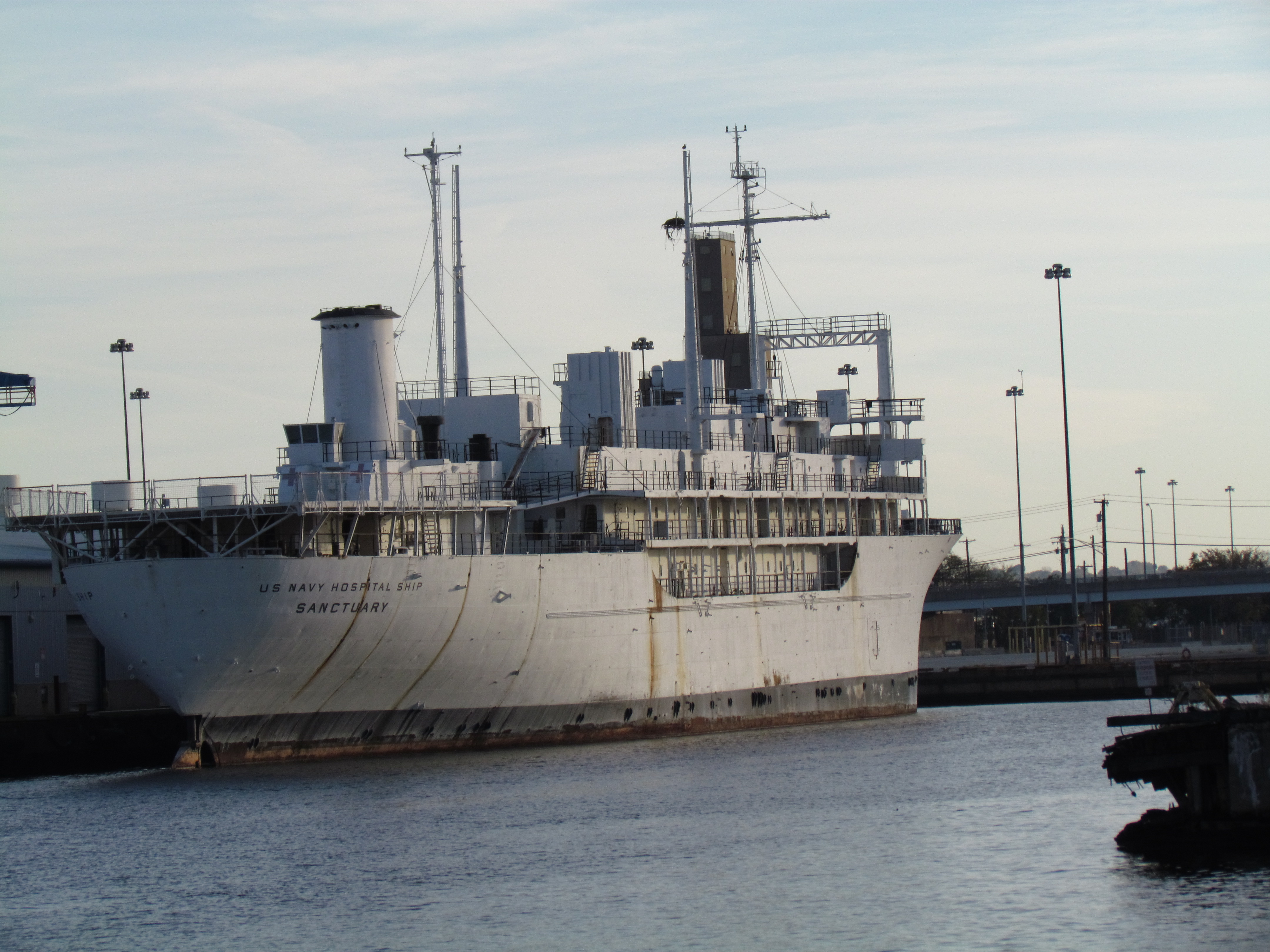 The U.S. Navy hospital ship USS Sanctuary (AH-17) laid up in Baltimore Harbor, Maryland (USA), 24 October 2010.